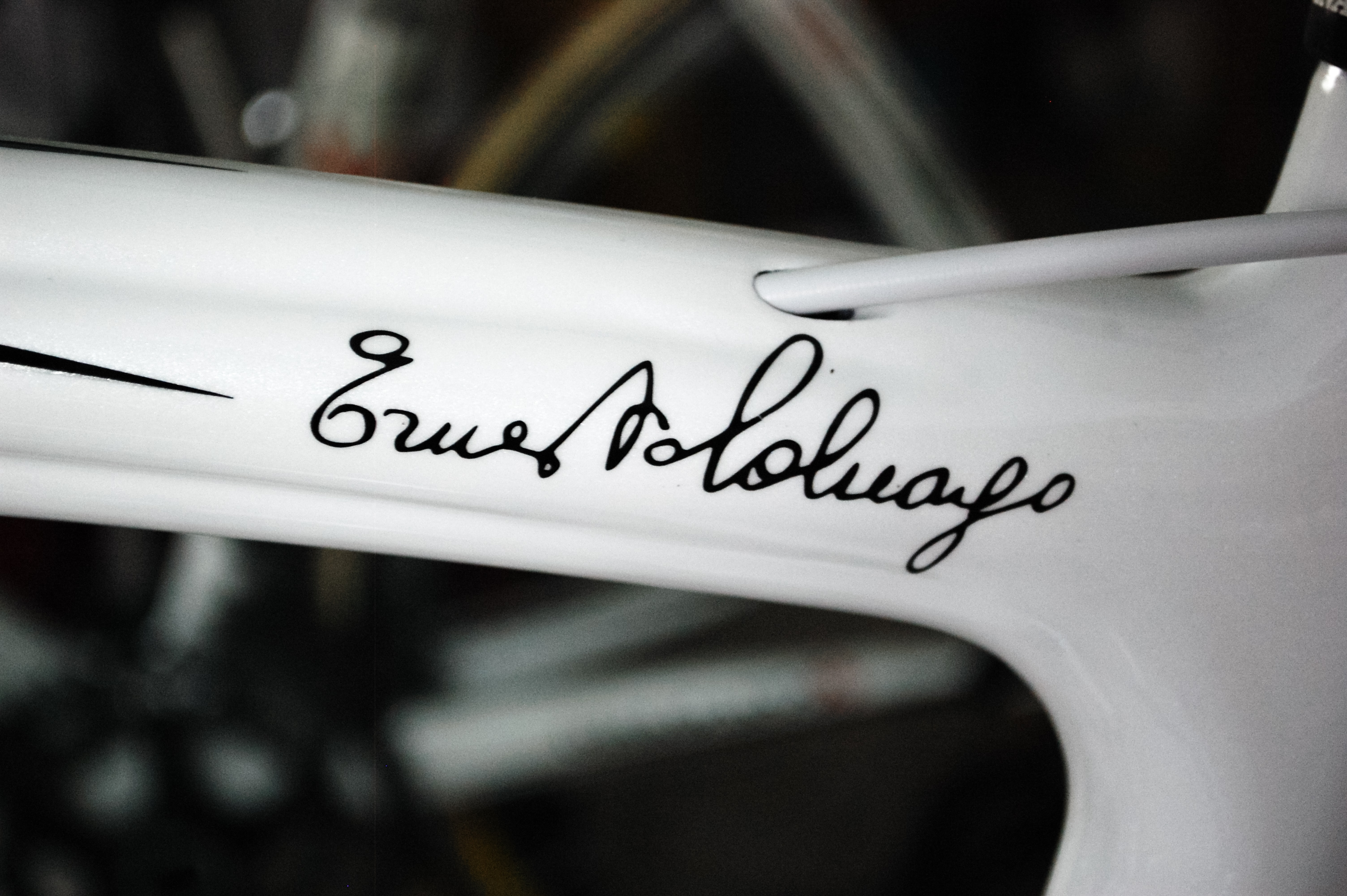 The signature of Ernest Colnago, a decal, appearing on all Colnago bikes.